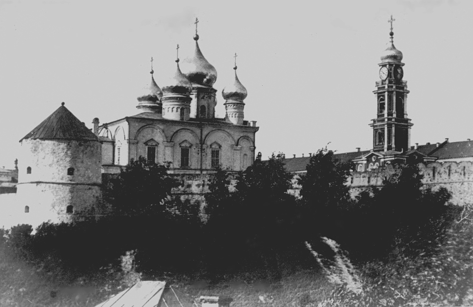 Saviour-Transfiguration monastery in Kazan Kremlin. View from the south-west